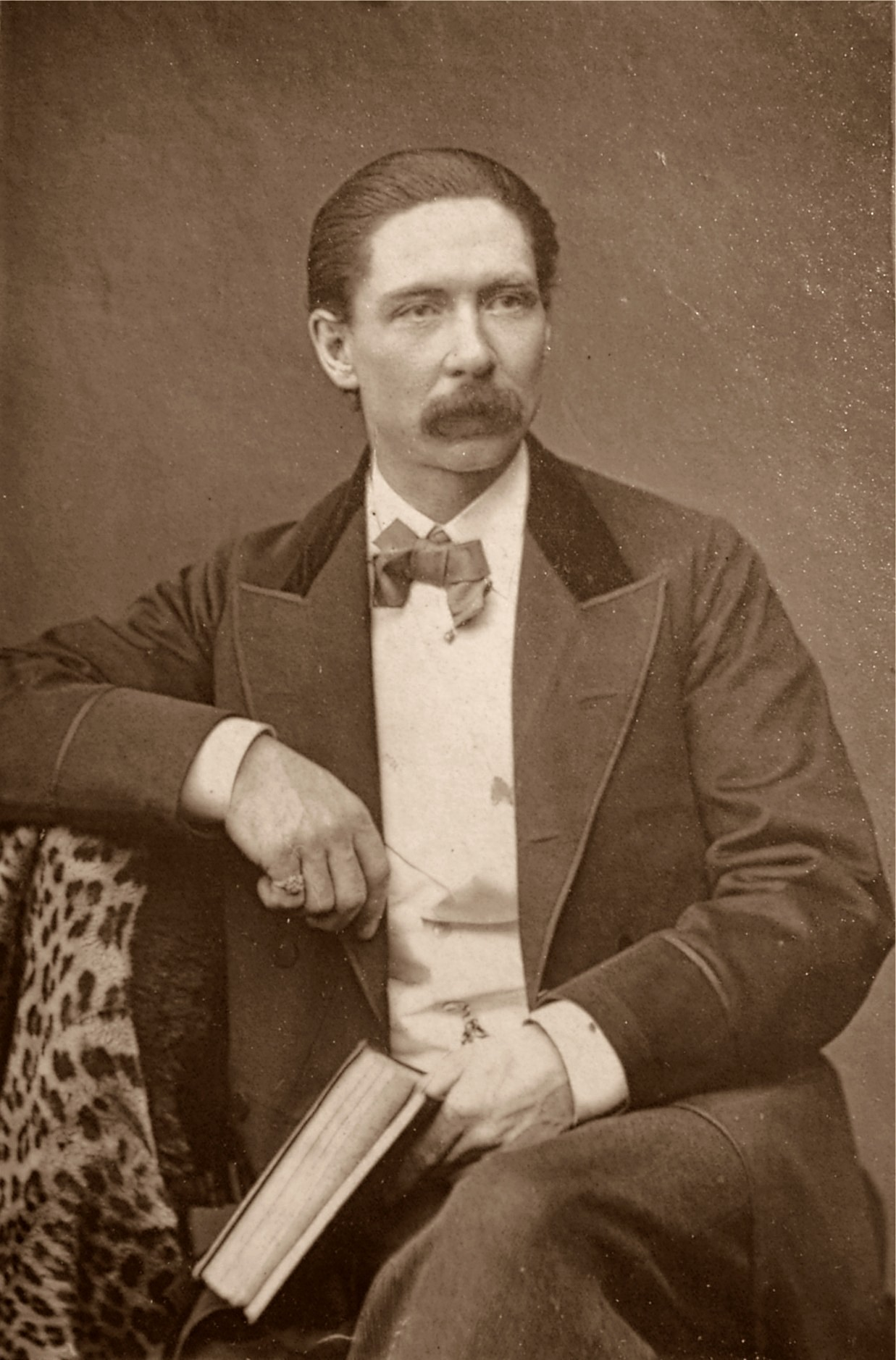 John Nevil Maskelyne 1839-1917, English Stage-Illusionist and Inventor.